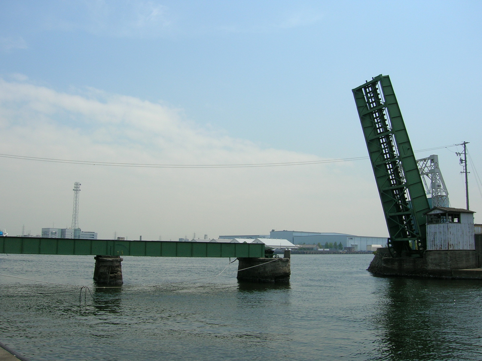 Nagoya-ko Haneage-bashi (Nagoya port Drawbridge, Rinko line Railroad's). Loc: Nagoya port, Nagoya city, Aichi Prefecture, Japan. 名古屋港跳上橋 撮影場所 愛知県名古屋市港区